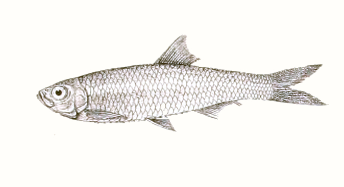 The species names / identity need verification - original names from plate are included here. The original plates showed the fishes facing right and have been flipped here. Corica soborna